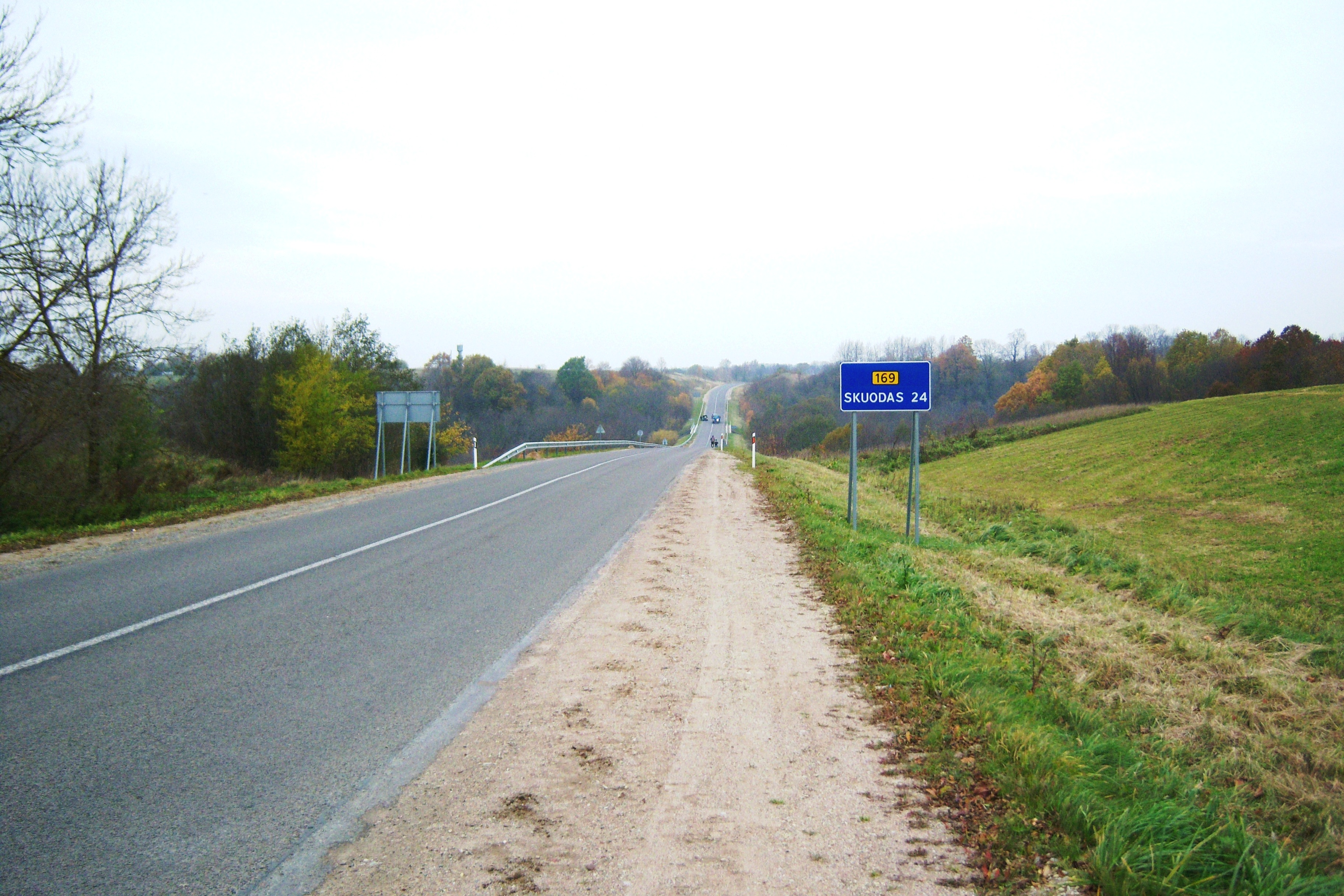 Road KK169 crossing Salantas River near Salantai, Kretinga district, Lithuania